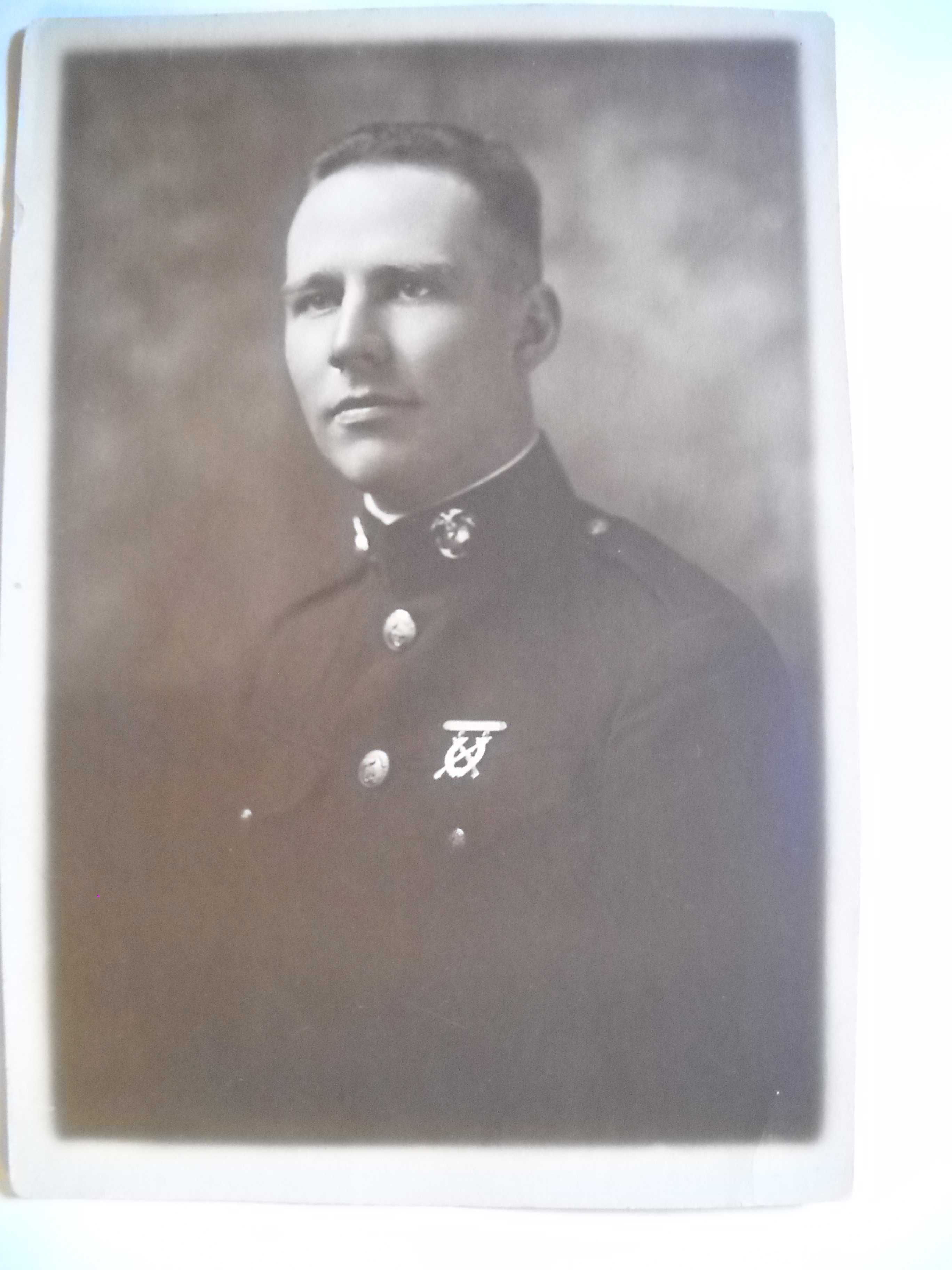 1917 photo